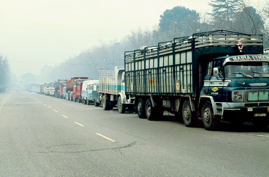 Trucks waiting in line for technical inspection at Paseo de Coches of Retiro Park. Madrid, Spain